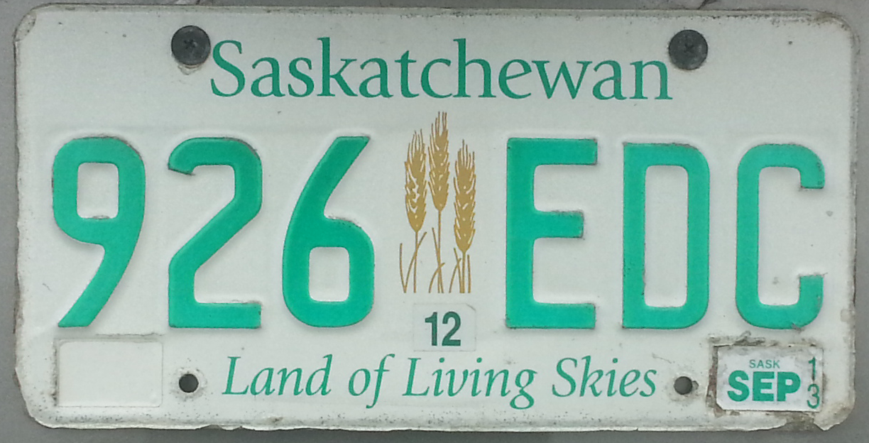 Passenger car license plate from the province of Saskatchewan, in Western Canada. White reflective backing, with green screened lettering "Saskatchewan" and "Land of Living Skies". Stylised image of wheat sheafs separating stamped green number and letter registration identifier. Plate is corroded and damaged around the edges.